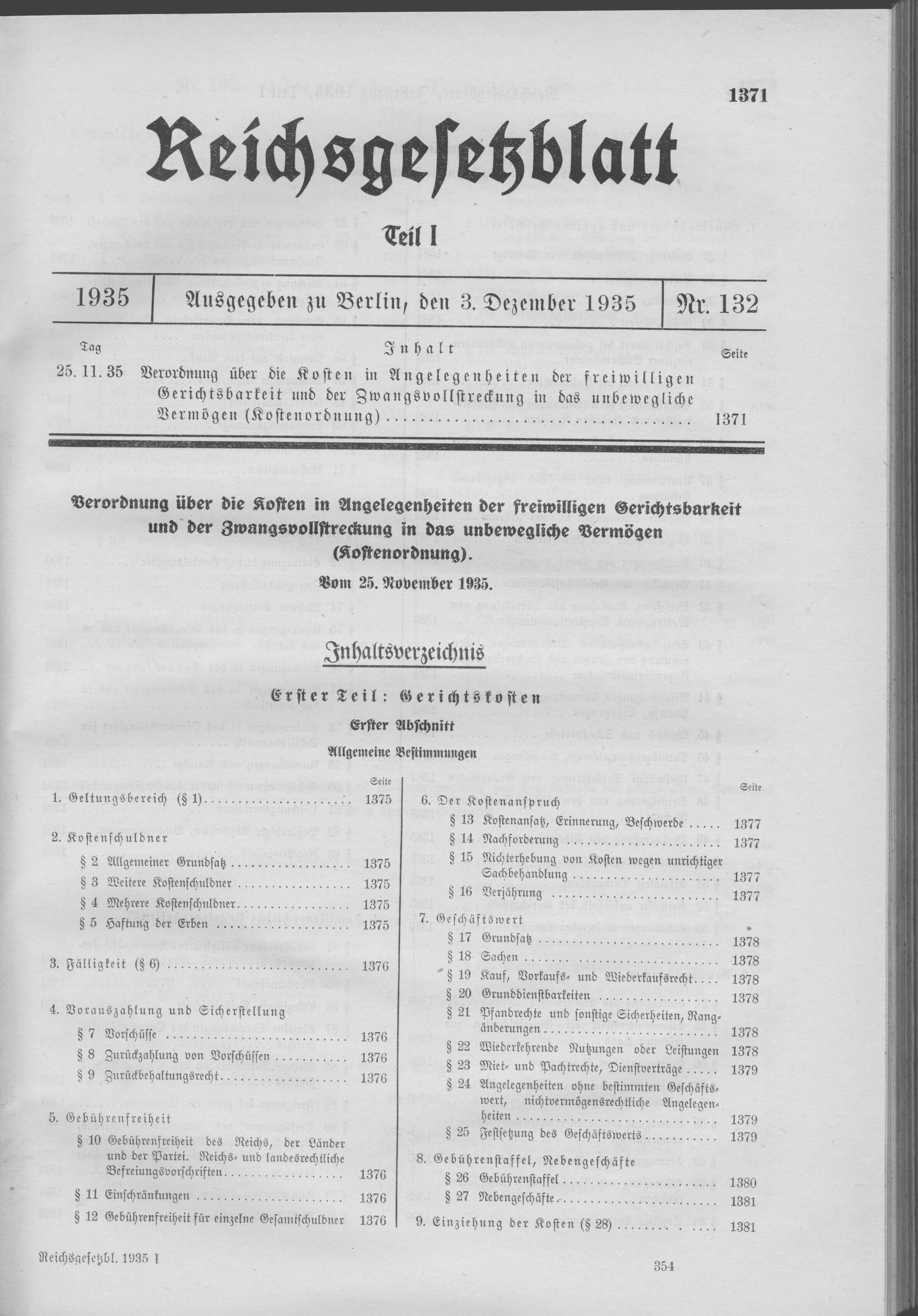 Scan from the Imperial Law Gazette of Germany, 1935, part 1